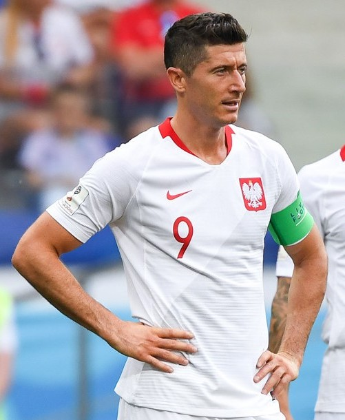 Tomoaki Makino, Kamil Grosicki, Robert Lewandowski